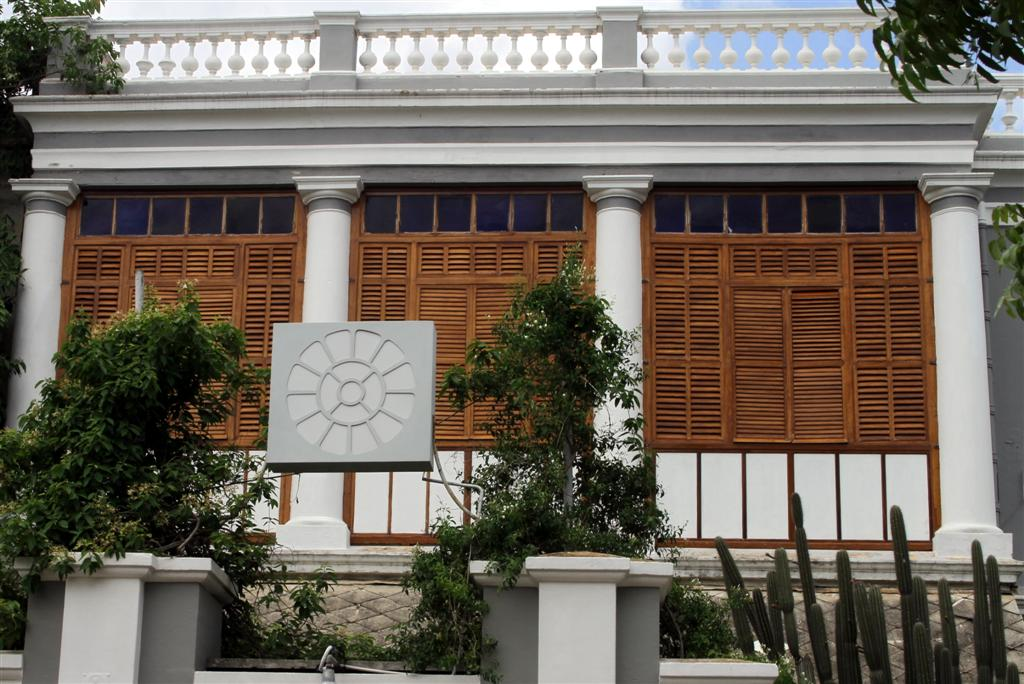 Near the MK Gandhi Beach lies Sri Aurobindo's Ashram which has the samadhi of Sri Aurobindo and Sri Ma